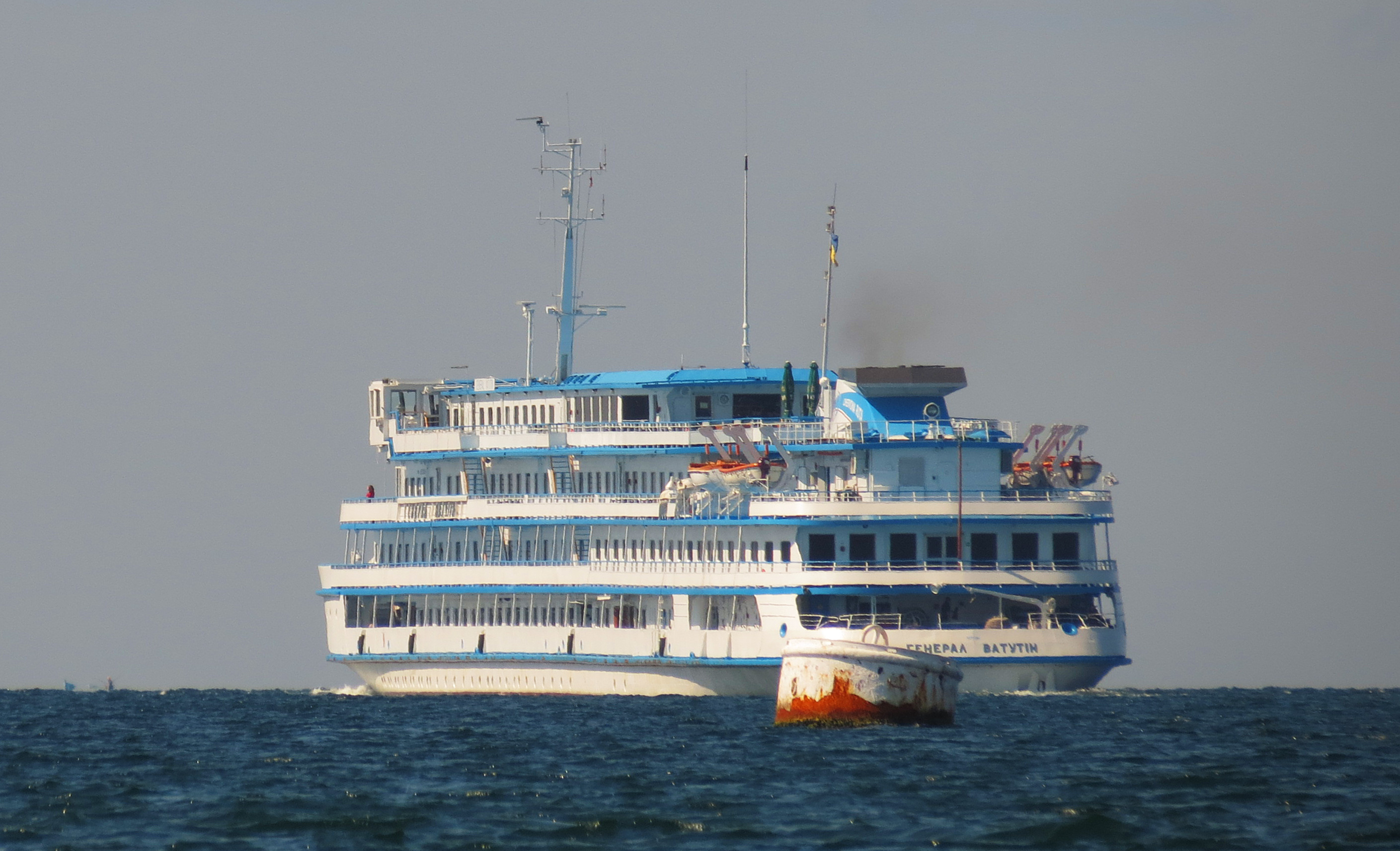 River cruise ship General Vatutin at Sevastopol on 14 September 2012